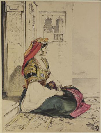 Jewish woman in fiesta dress 1835 by John Frederick Lewis via Jewish Museum London